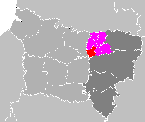 Maps of arrondissements and cantons of France